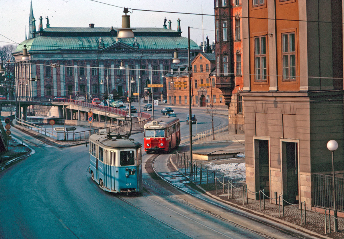 Buss och spårvagn på Munkbron 1964 Photograph by: Trapp, Håkan Date: 1964 Photo Nr: 2108-56